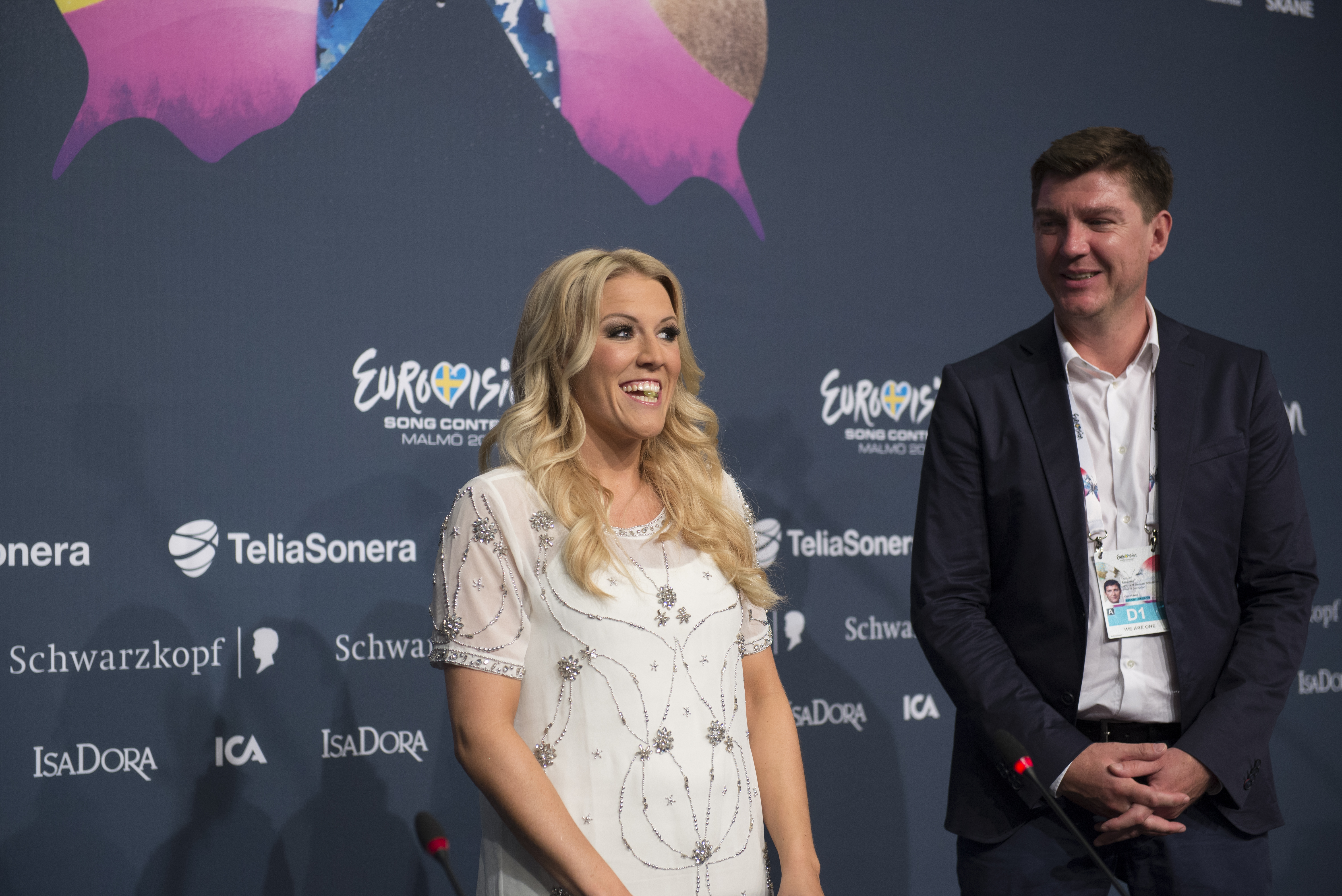 Natalie Horler from Cascada at a press conference during the Eurovision Song Contest 2013 Malmö. (Help translate this text)